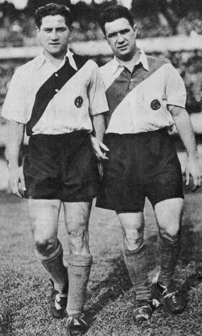 Adolfo Pedernera (left) and Carlos Peucelle, forwards of Argentine Club Atlético River Plate.